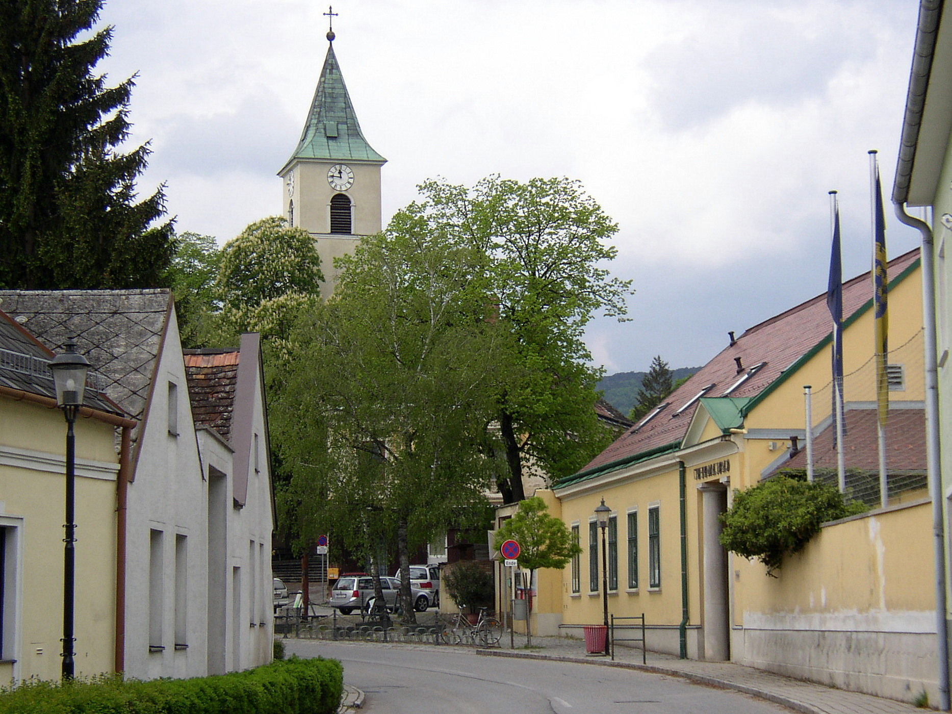 Saint Martin parish church and thermal spa of Bad Fischau.